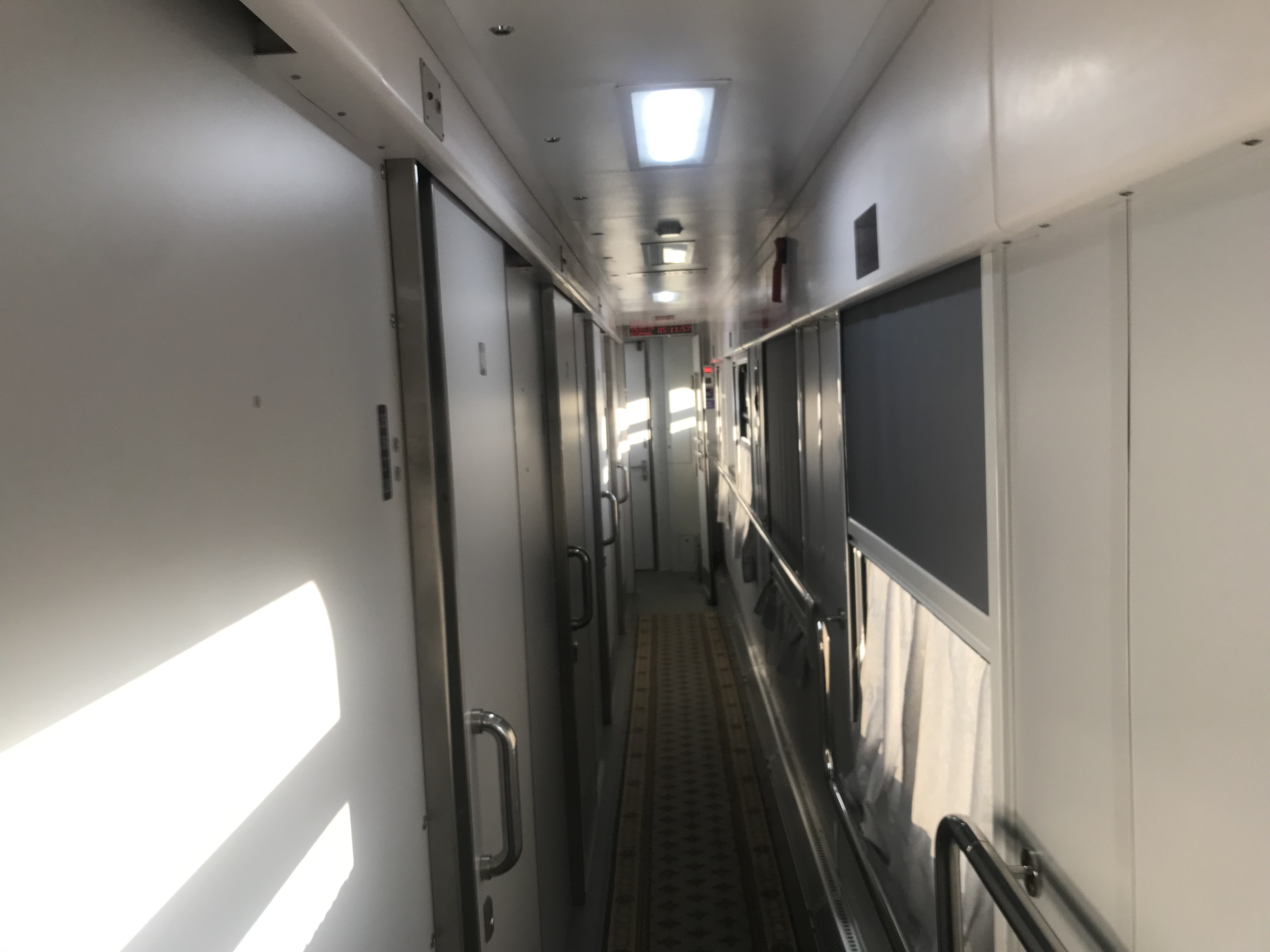 Sleeping carriage #045, carriage 10 corridor; 09.07.19